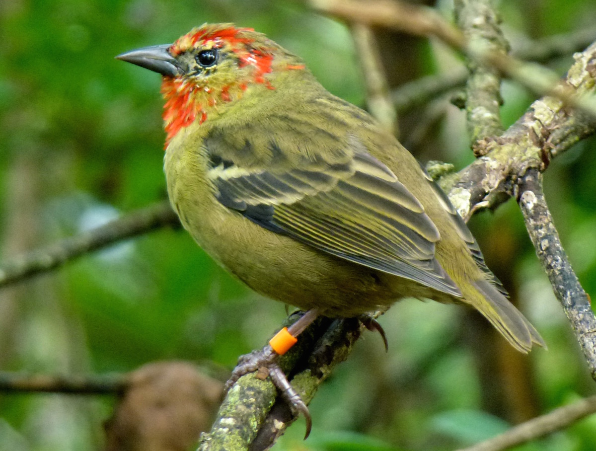 Kumquat after a week, almost fully red